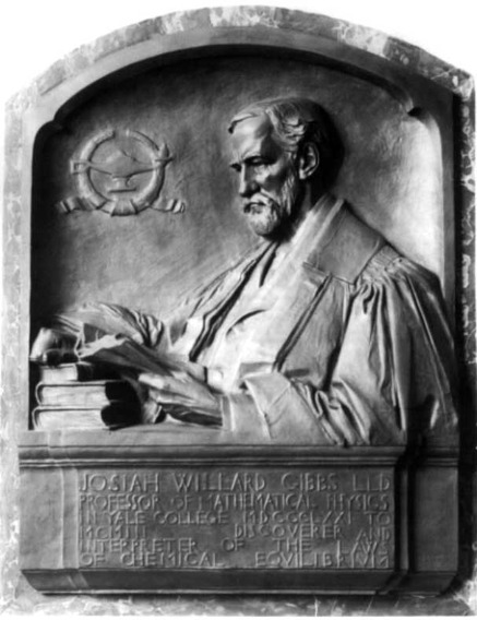 Photograph of a bronze bas relief by sculptor Lee Lawrie, depicting scientist Josiah Willard Gibbs. Unveiled in 1912 in the Sloane Physical Laboratory, at Yale University. Moved to the J. Willard Gibbs Laboratories in 1955.